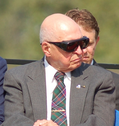 Former Lieutenant Governor of Alaska John B. "Jack" Coghill at the Governor's Picnic in Fairbanks, Alaska on July 26, 2009